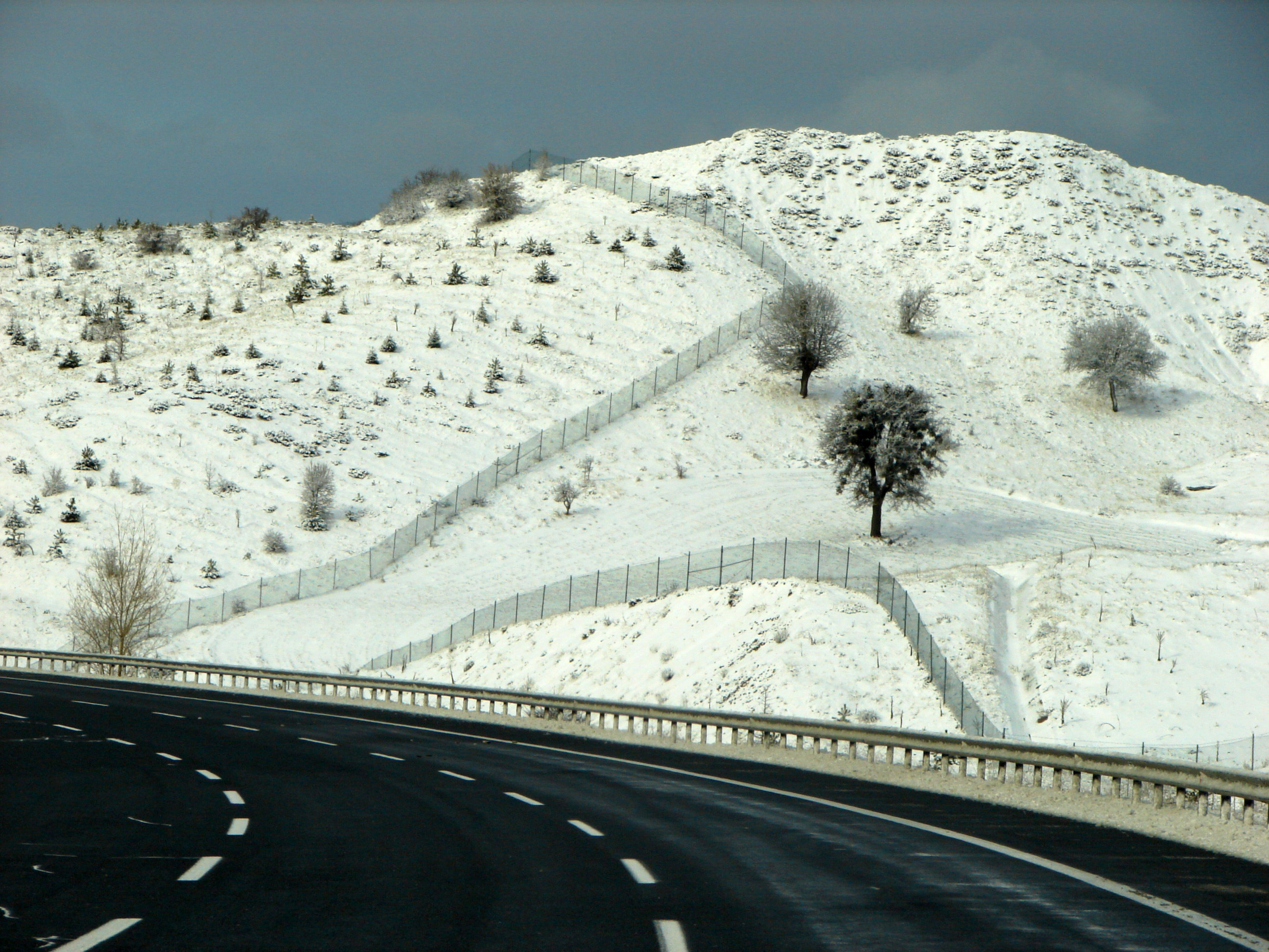 Road, Near Ankara